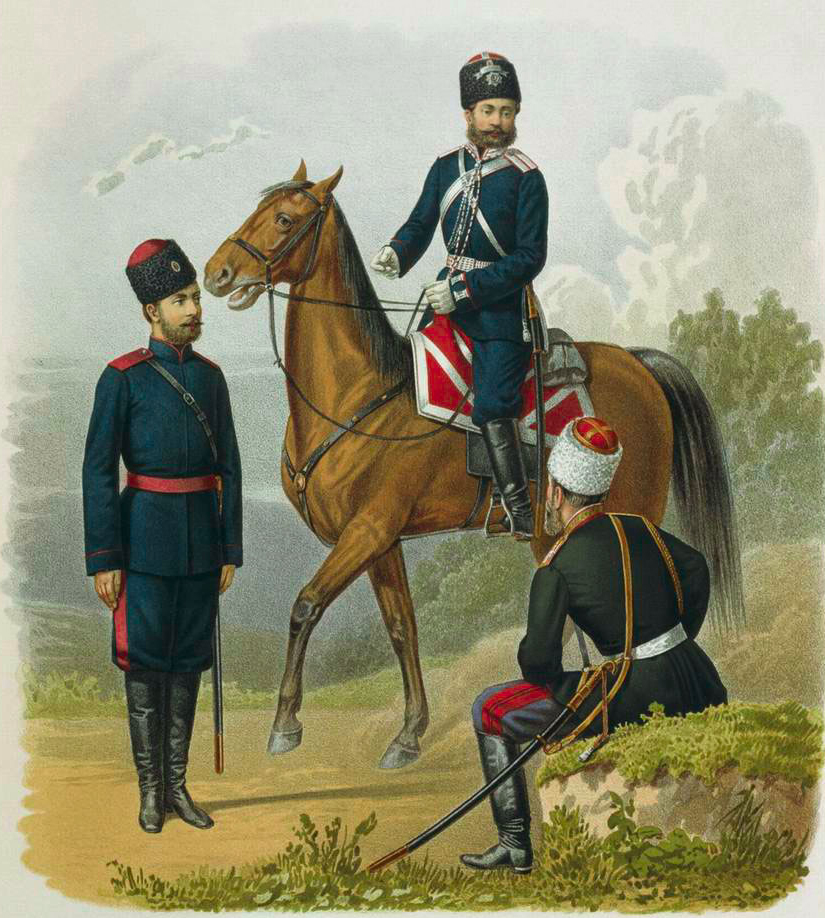 Cossaks troops